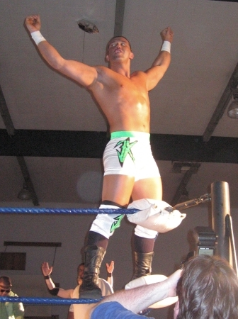 Frankie Kazarian posing before his match with Scorpio Sky and Quicksilver against Joey Ryan, Scott Lost and Chris Bosh.